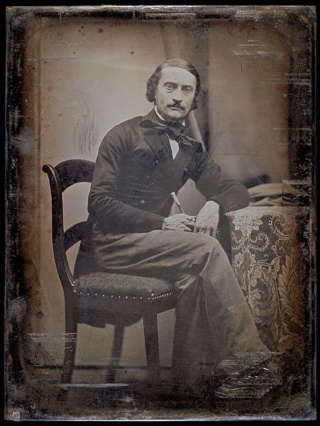 Pieter Oosterhuis zelfportret, ca. 1860